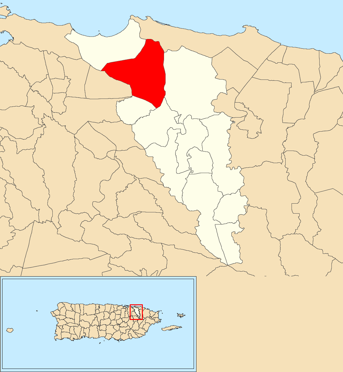 Sabana Abajo, Carolina, Puerto Rico locator map